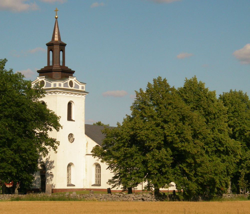 Torstuna church